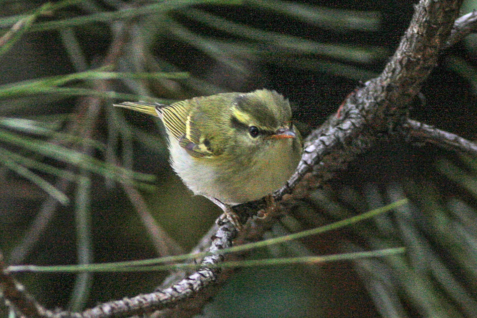 Kloss's Leaf Warbler (Phylloscopus ogilviegranti), Wuyi National Park, Huangang Shan, Jiangxi, China